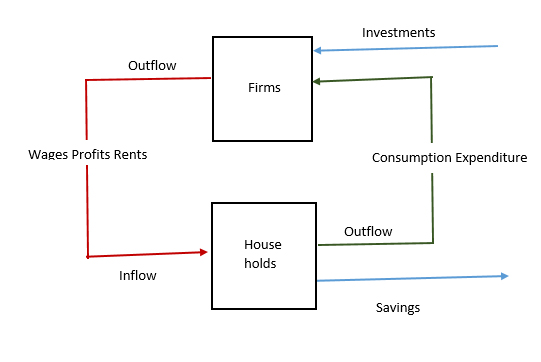 Income Consumption Savings Investment cycle